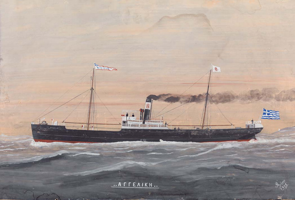 Steamship Angeliki, 1918